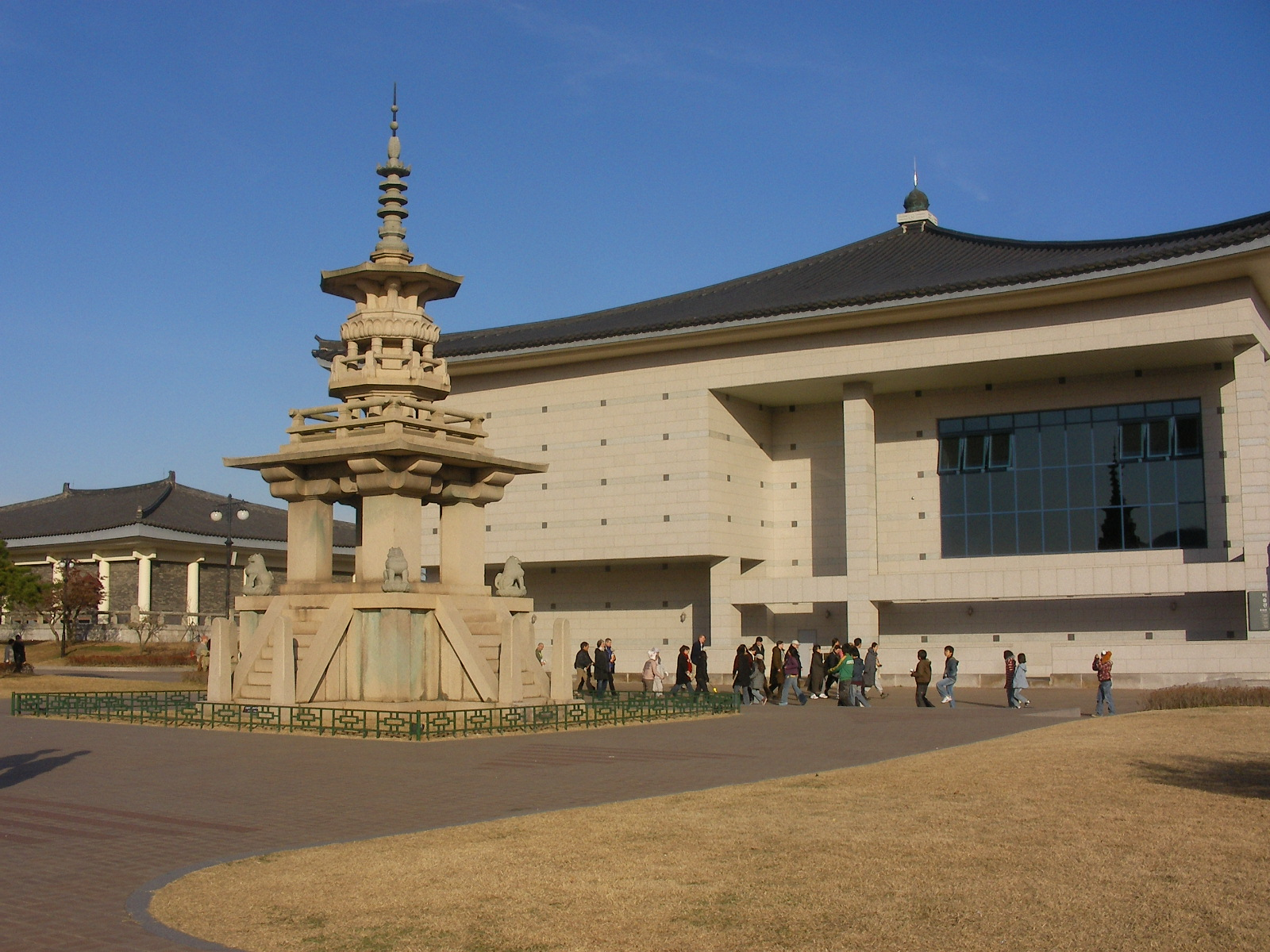 Gyeongju National Museum, Gyeongju, Gyeongsangnam-do, South Korea